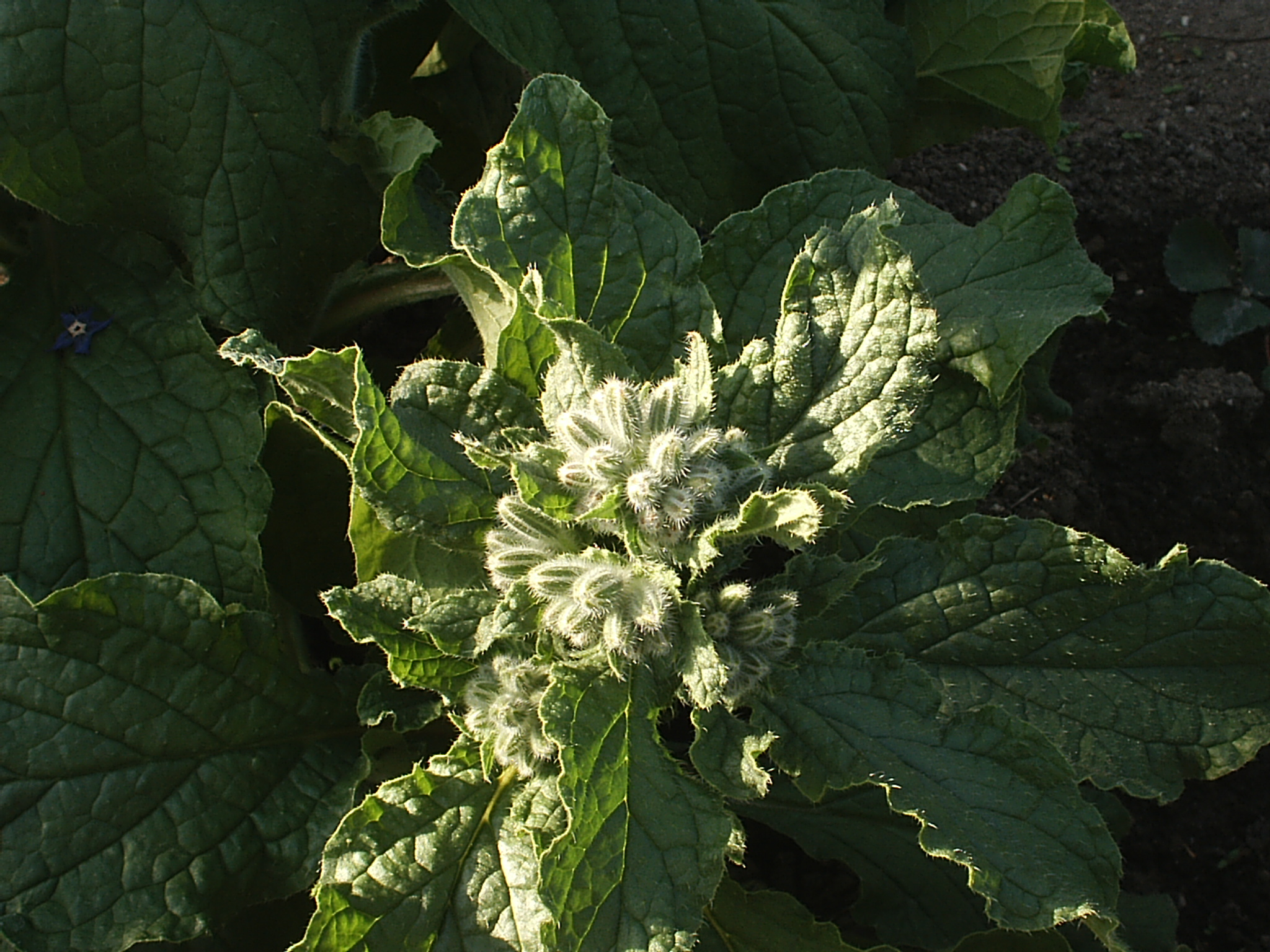 Flower buds of Borago officinalis in a garden in the village Pragsdorf, Germany